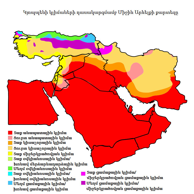 The climate map of the Middle East